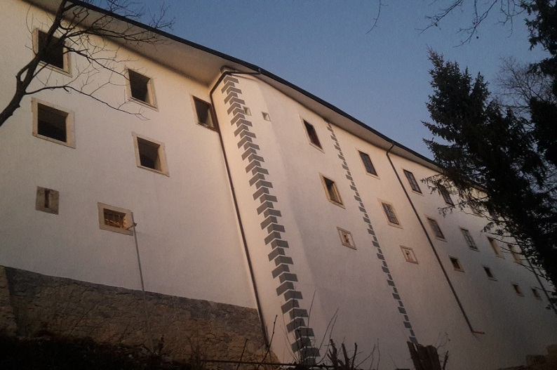 Zunanja fasada, grad Raka